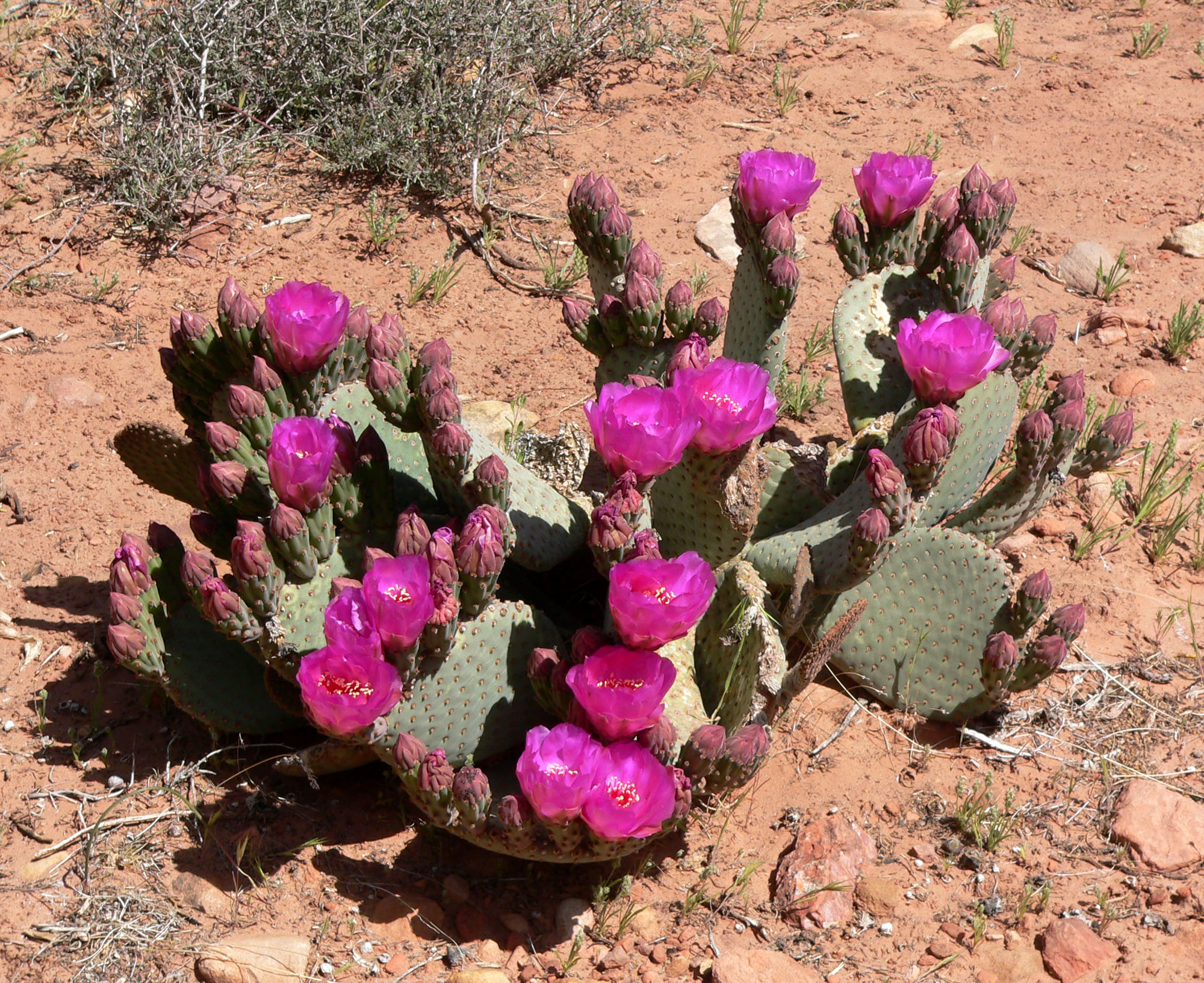 Opuntia basilaris in the sandy area of Pine Creek Canyon east of the old homestead, Red Rock Canyon, Spring Mountains, southern Nevada (elev. about 1200 m)